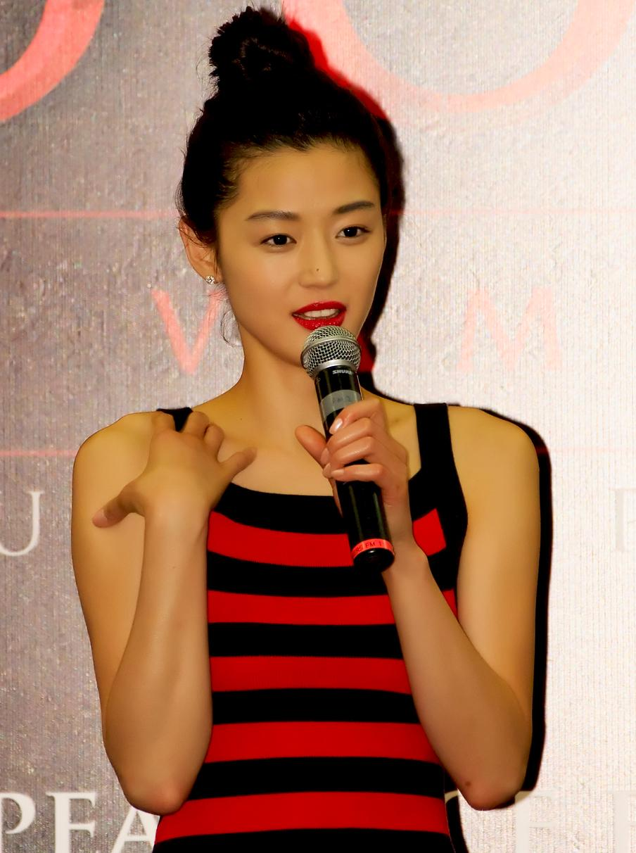 Korean actress Jun Ji-Hyun at a promotional event for the film Blood: The Last Vampire in 2009.